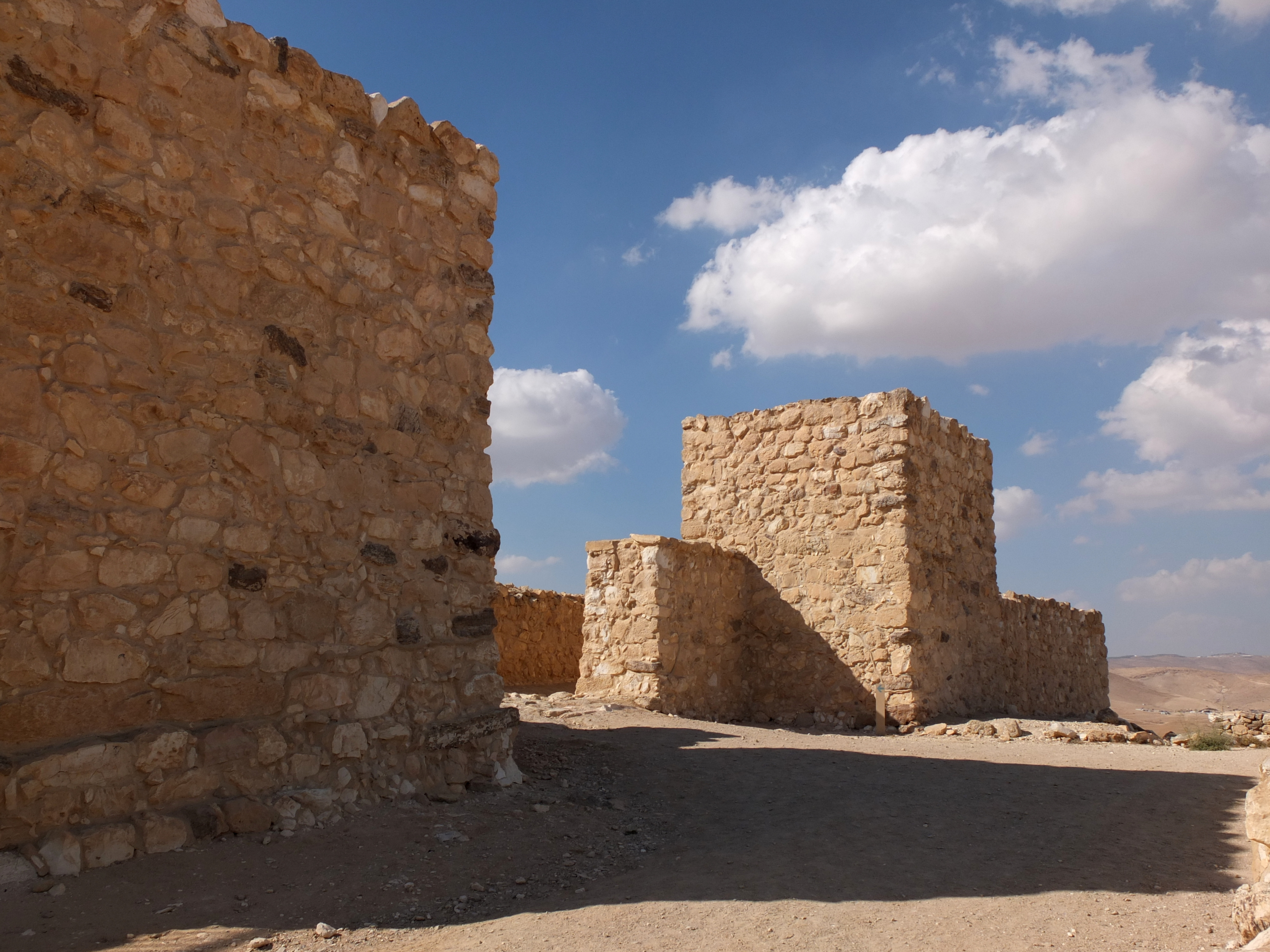 Tel Arad, northwest of the modern Israeli city of Arad, in the northern Negev, consists of a lower and an upper city. The lower city was inhabited in the Early Bronze Age (3150-2200 BCE). At approximately 100 dunams (25 acres) Arad was one of the largest cities of its day in this country, surrounded by a strong 1,200-meter wall. The city's streets, plazas, and buildings were meticulously planned, including a reservoir in the lowest part of the city to which surface runoff was channeled.